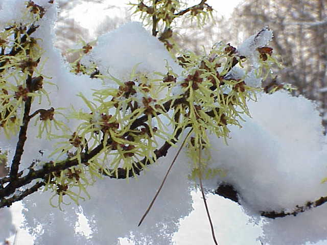 Species: Hamamelis mollis Family: Hamamelidaceae Image No. 2